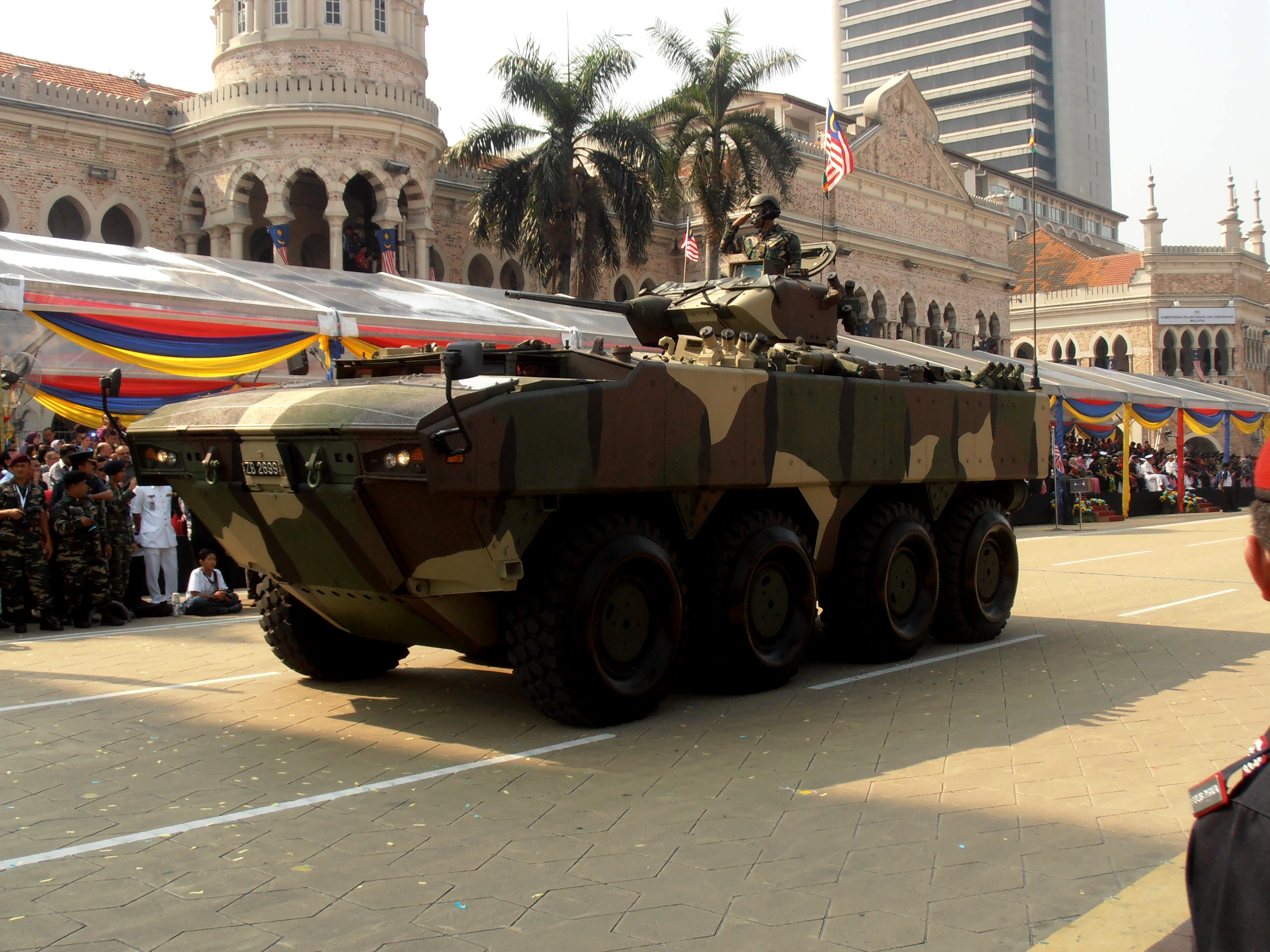 An Malaysian Army's DefTech AV8 APC on parade during the National Day Parade of 2013 at National Square, Kuala Lumpur, Malaysia.